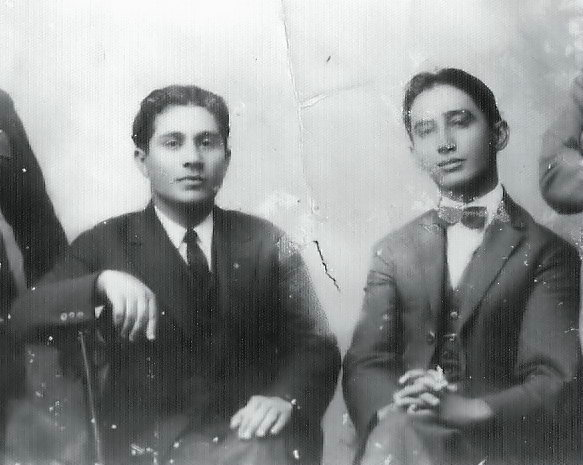 Arquivo Memorial Dr. Romildo Borges Mendes